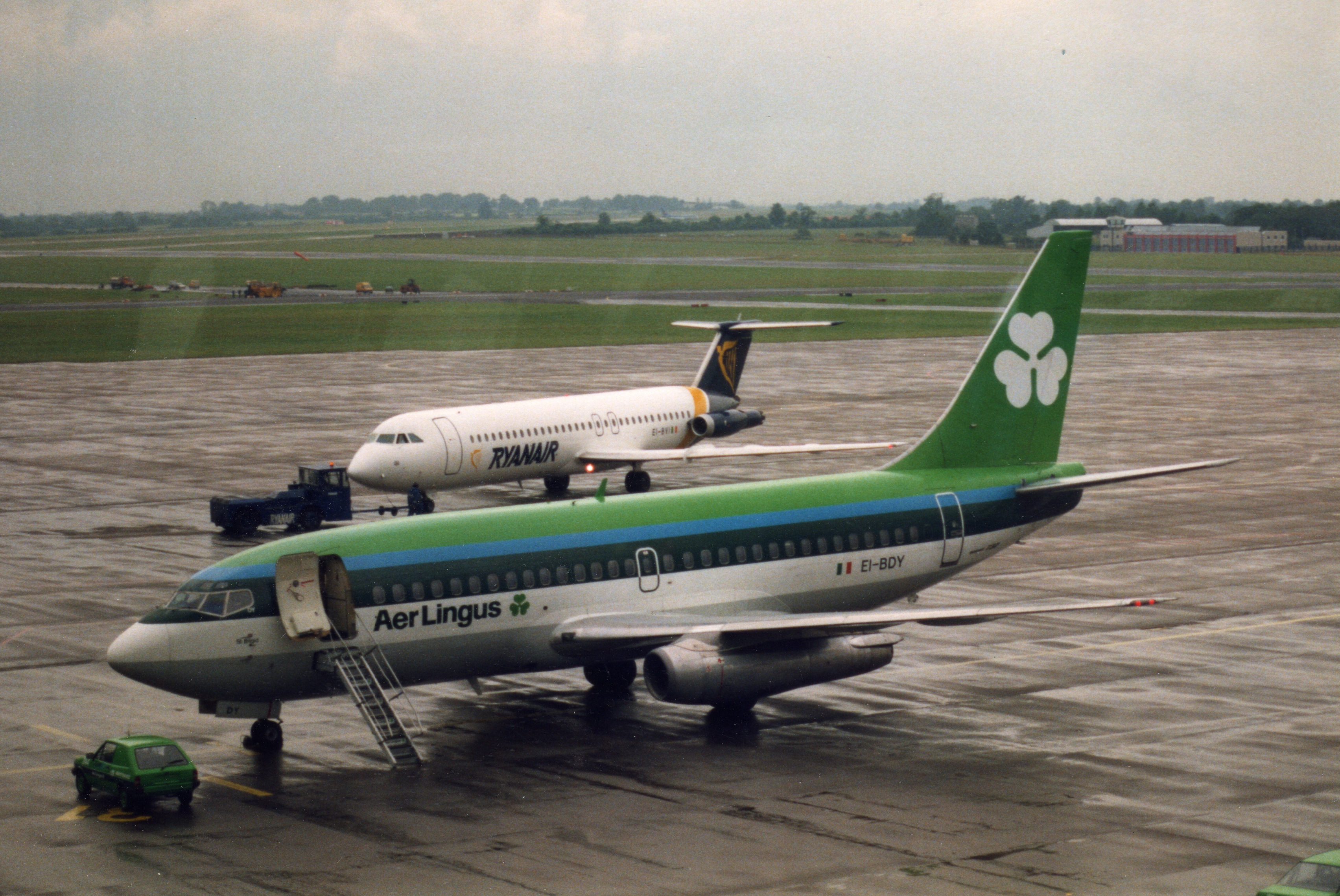 Aer Lingus (EI-BDY) Boeing 737-200 aircraft and Ryanair (EI-BVI) BAC 111-525FT aircraft, Dublin Airport, Dublin, Republic of Ireland, July 1992